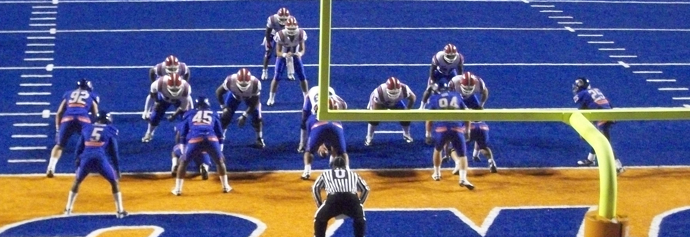 The Boise State Broncos defense making a goal line stand against Louisiana Tech during their game on October 26, 2010 at Bronco Stadium in Boise, Idaho.